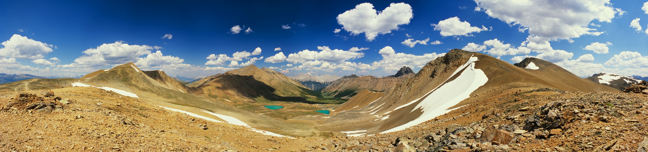 Skyline trail, Jasper National Park 180 degree panorama. The trail is running roughly north-south, and can be seen on the left and right sides of the panorama. The city of Jasper lies in the valley to the north (left side of the panorama) and is not visible. Mt. Robson is just visible to the north as the highest peak on the horizon